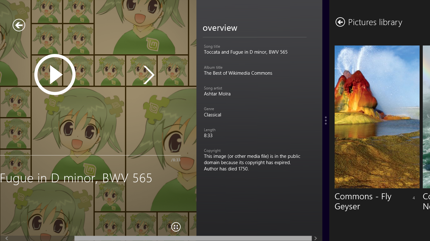 Screenshot of Windows 8 showing Xbox Music app to the left (ready to play Toccata and Fugue in D minor, BWV 565) and Photos app to the right (showing an image of Fly Geyser in the Black Rock Desert, Nevada).